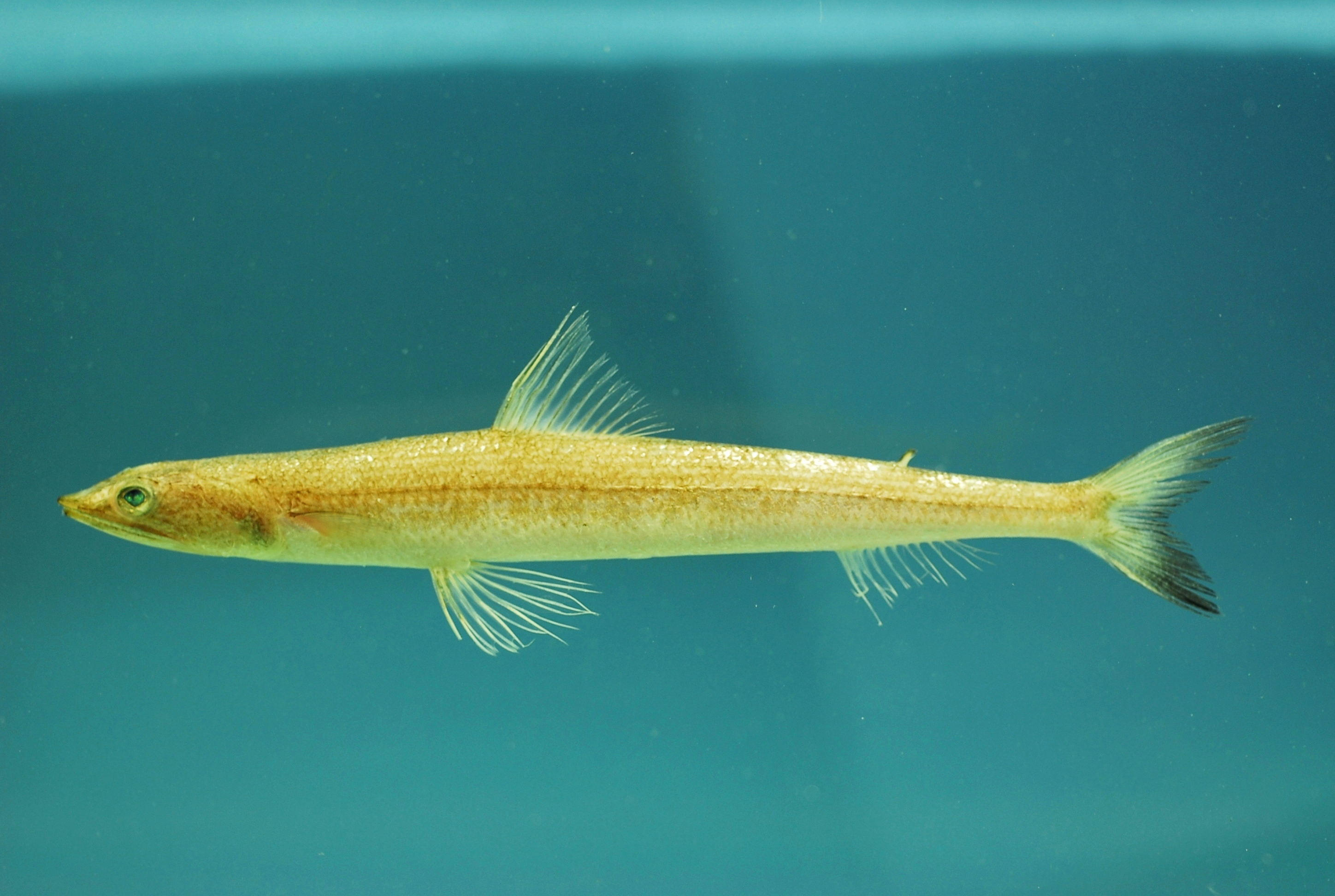 Inshore lizardfish ( Synodus foetens ). Gulf of Mexico.